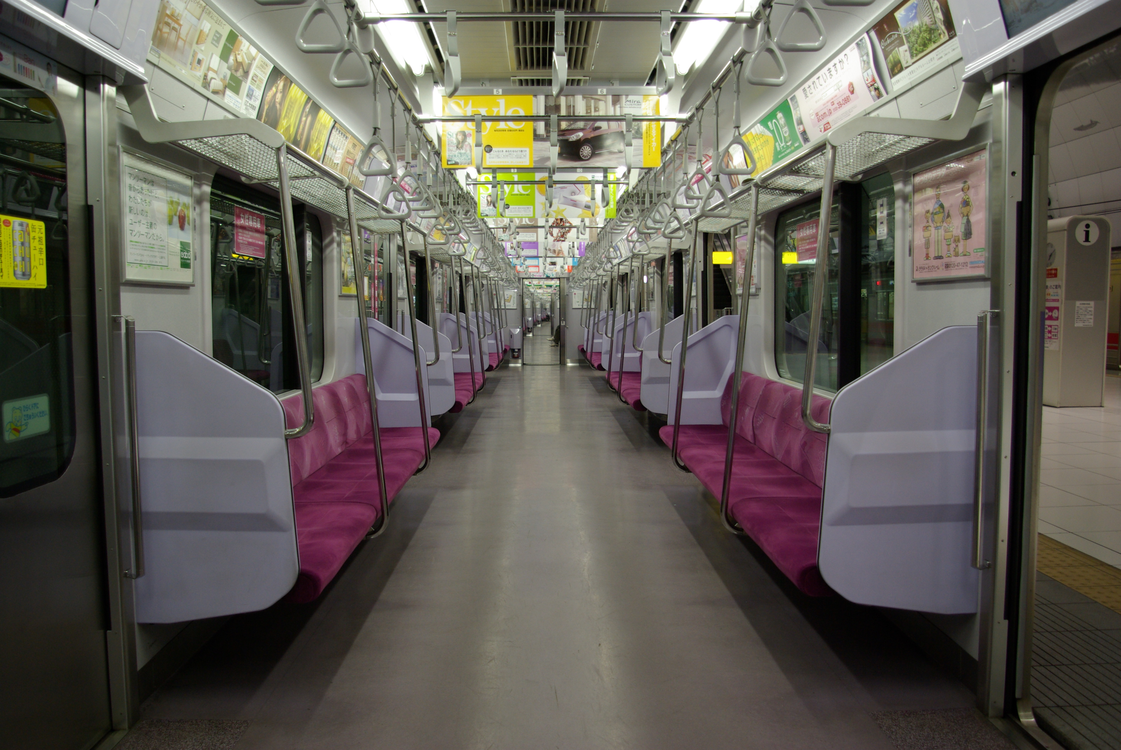 interior view of Yokohama Minatomirai Railway Company Y500 series (Car Y576), taken at Motomachi-Chūkagai Station, Minatomirai Line